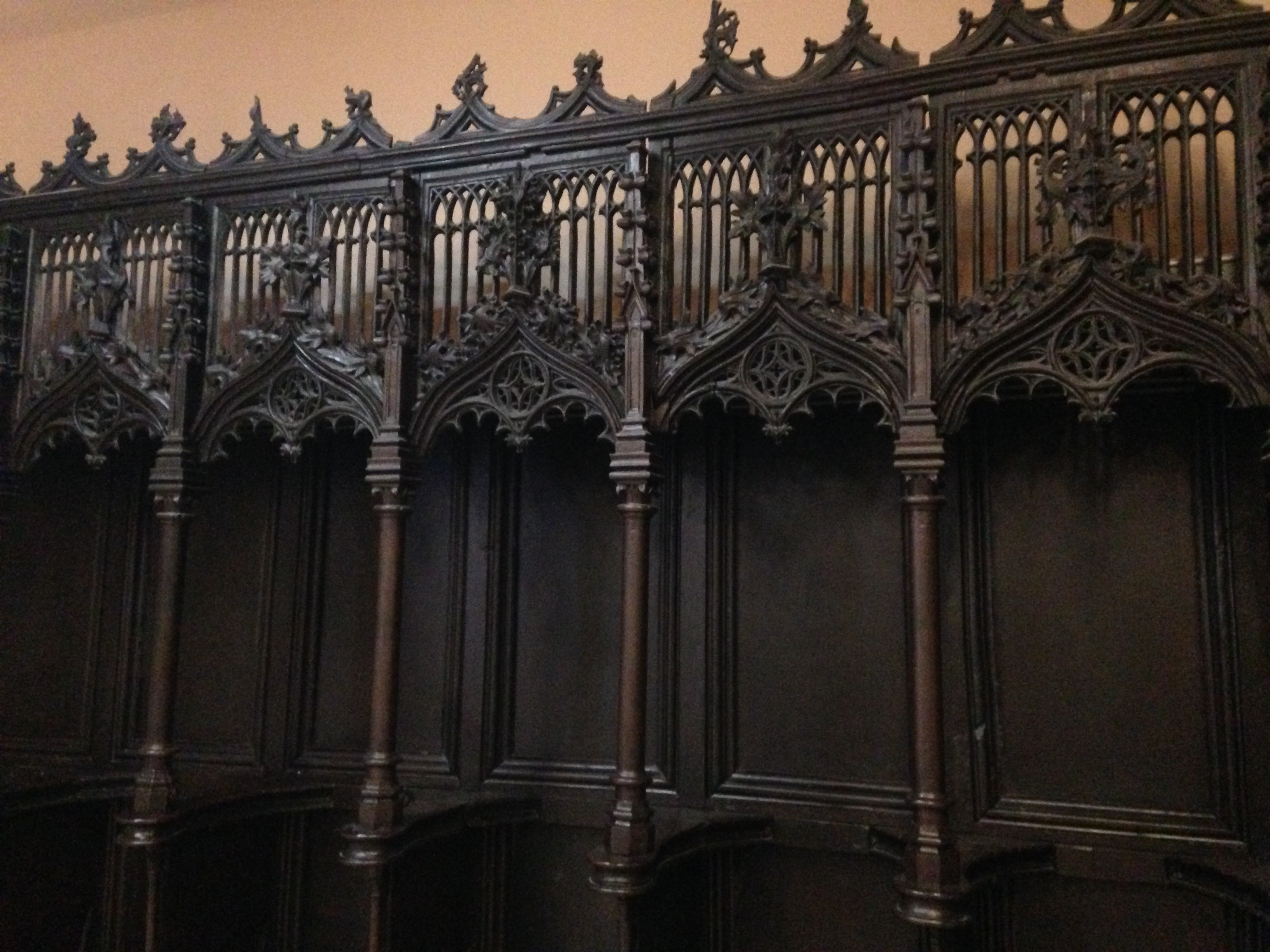 Sillería Monasterio de Lupiana